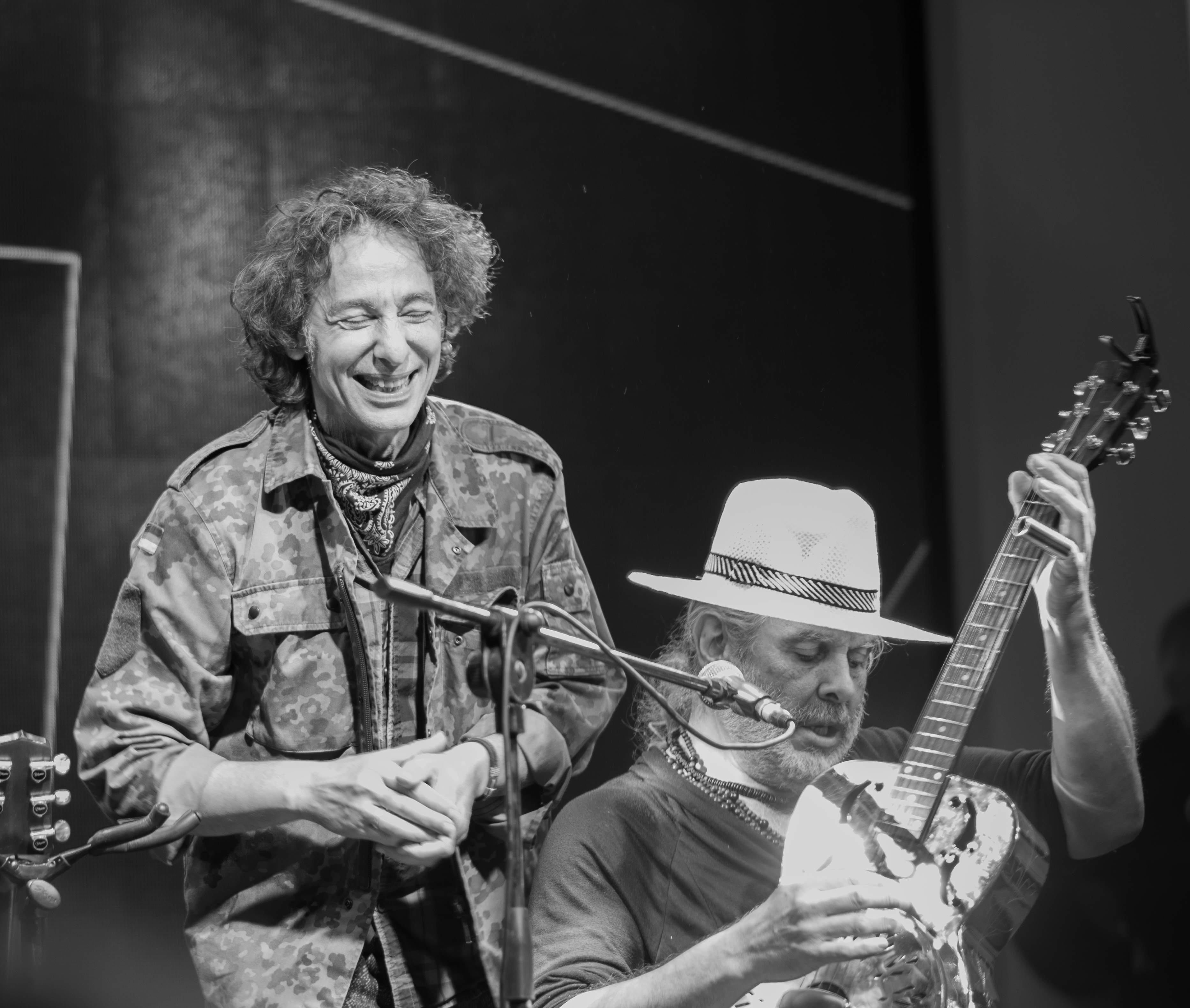 Miguel Vilanova, a.k.a Botafogo and Javier Calamaro in concert in espacio Clarín, Mar del Plata, Argentina